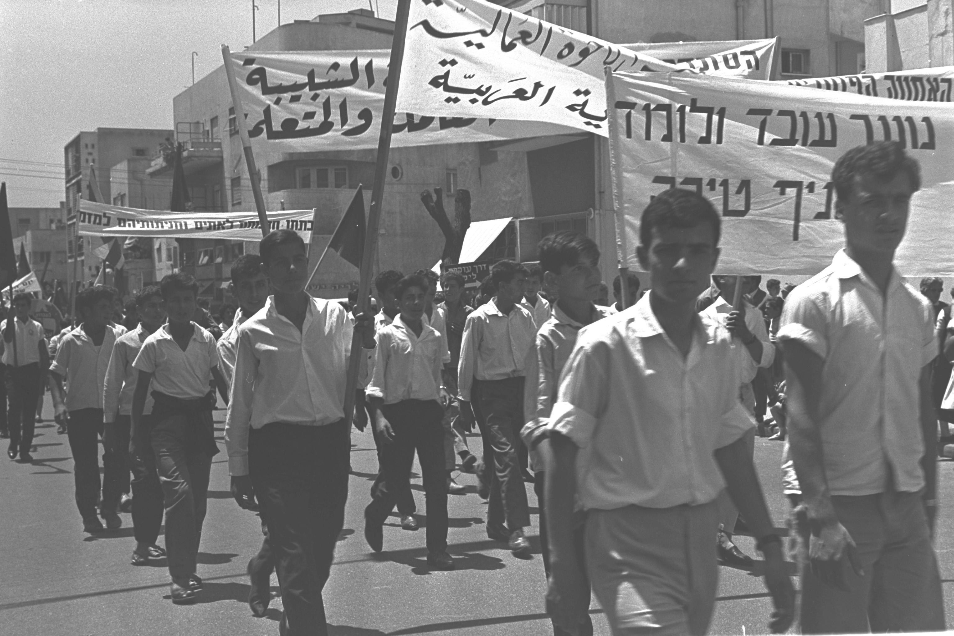 MEMBERS OF THE "HANOAR HAOVED" YOUTH MOVEMENT FROM THE ARAB TOWN TAIBE, MARCHING IN THE MAY DAY PARADE IN TEL AVIV.